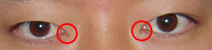 Epicanthicfold, highlighted